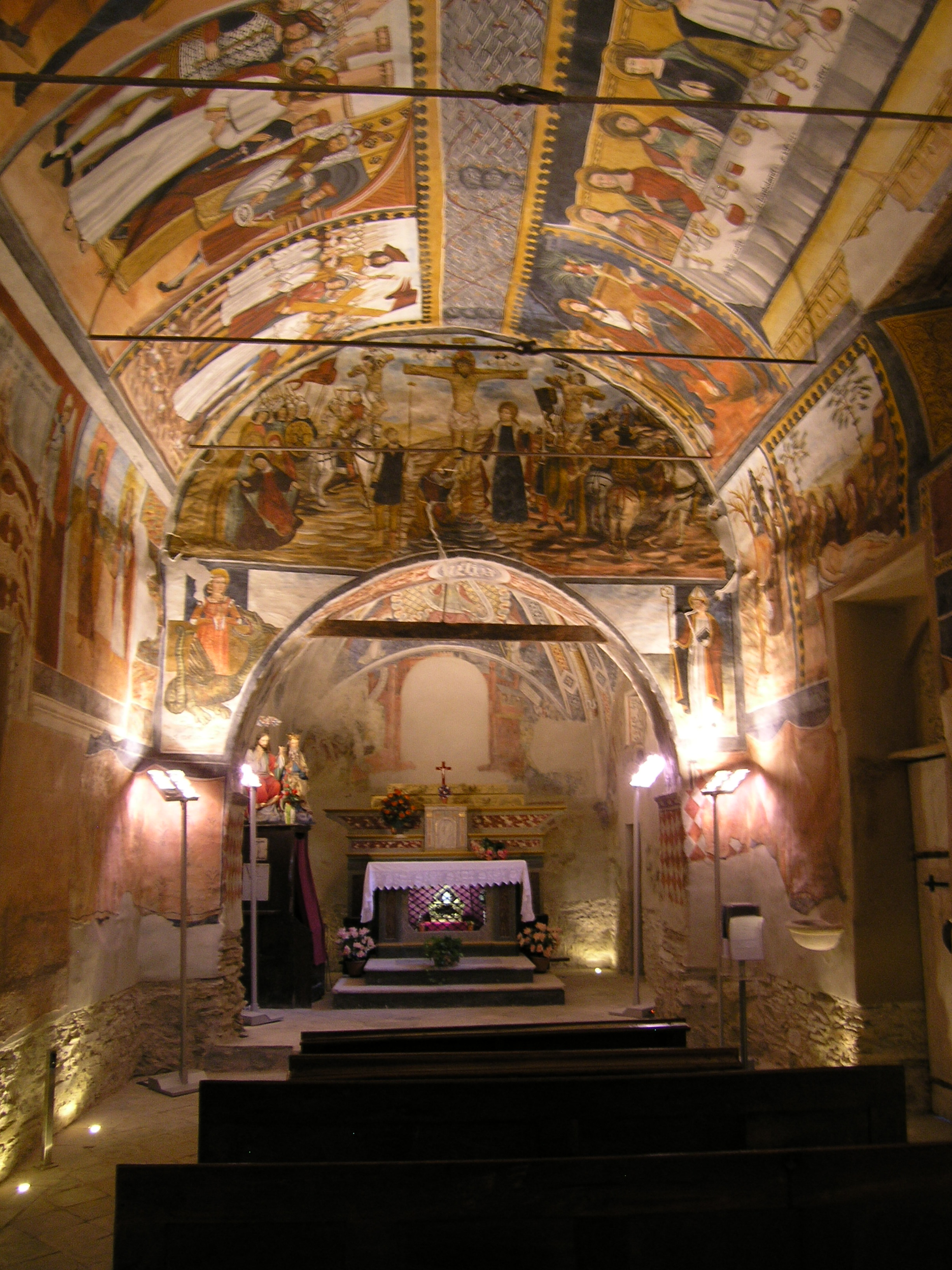 Saint Magnus sanctuary at Castelmagno (Italy): ancient chapel